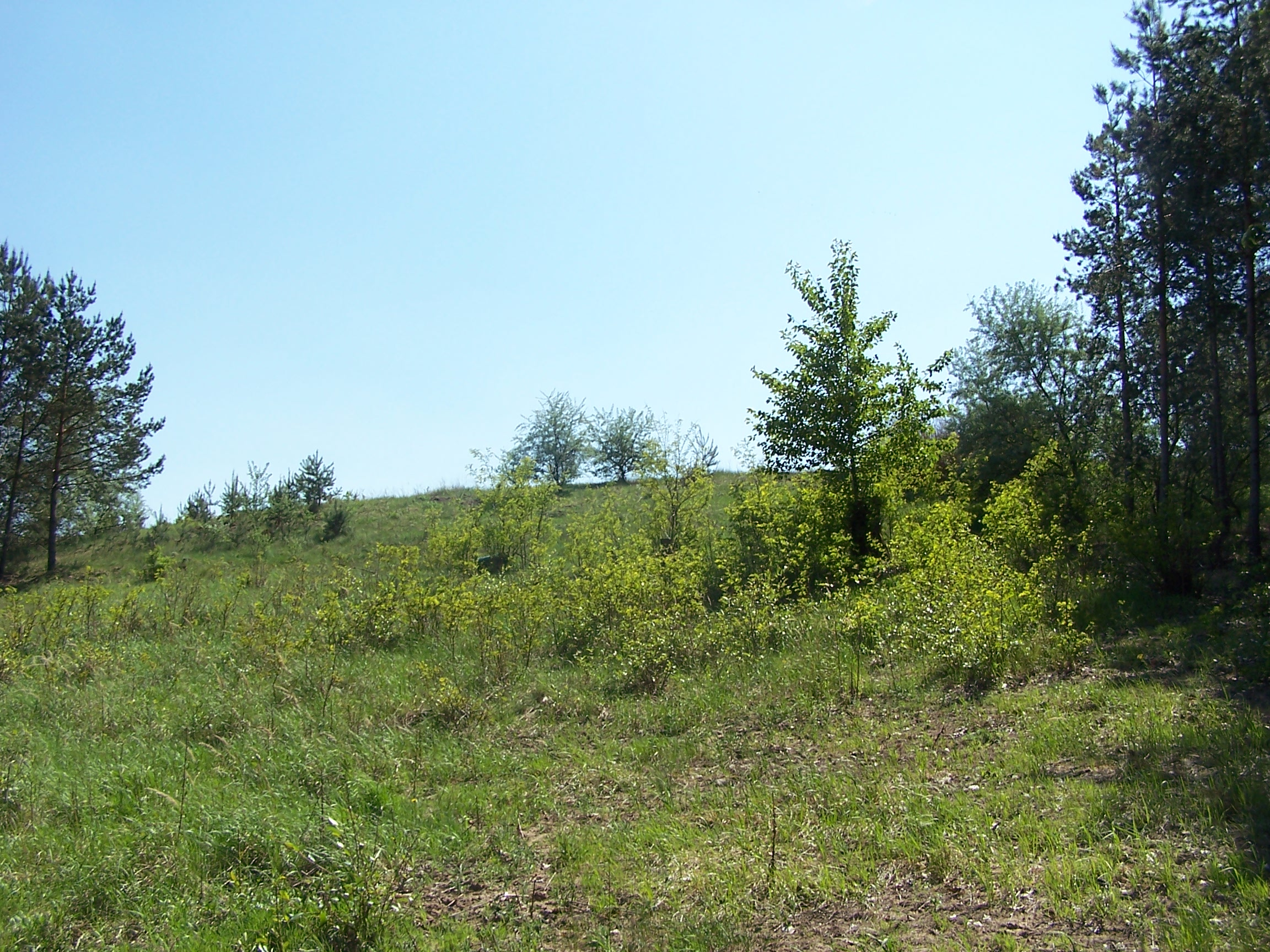 Bunker Hill 2011